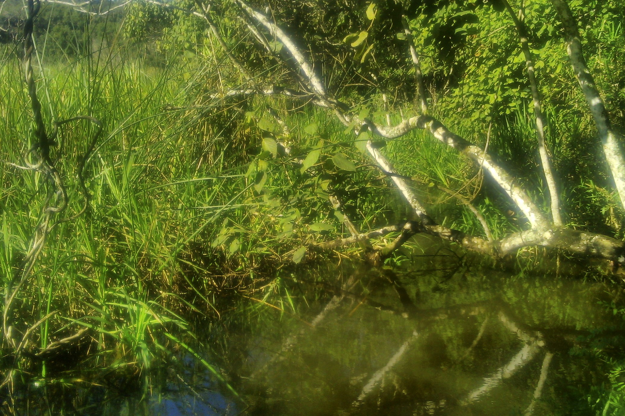 Marshes, headwaters of Tietê river, Salesópolis, São Paulo, Brazil